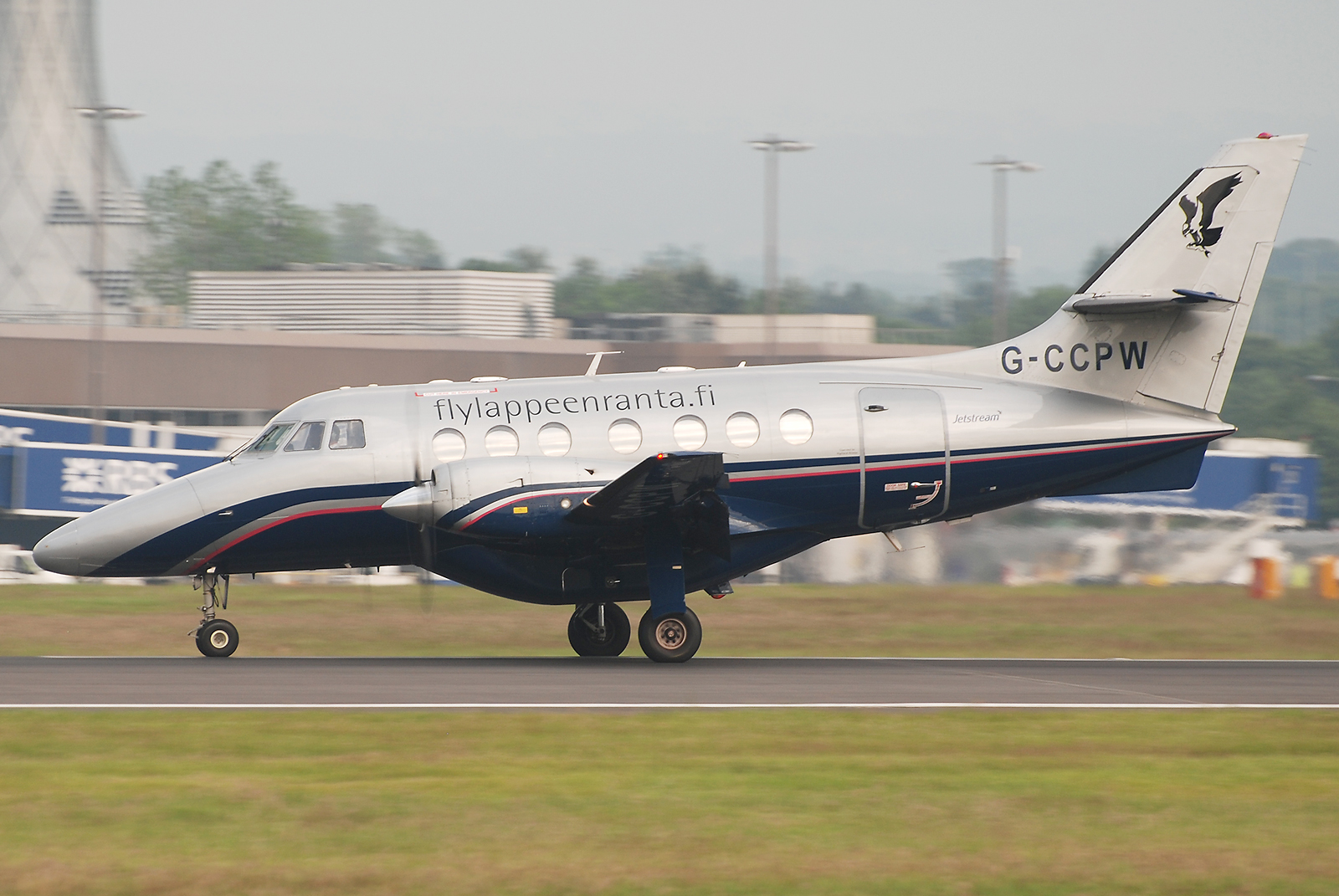 Fly Lappeenranta Jetstream 31 G-CCPW at Edinburgh Airport